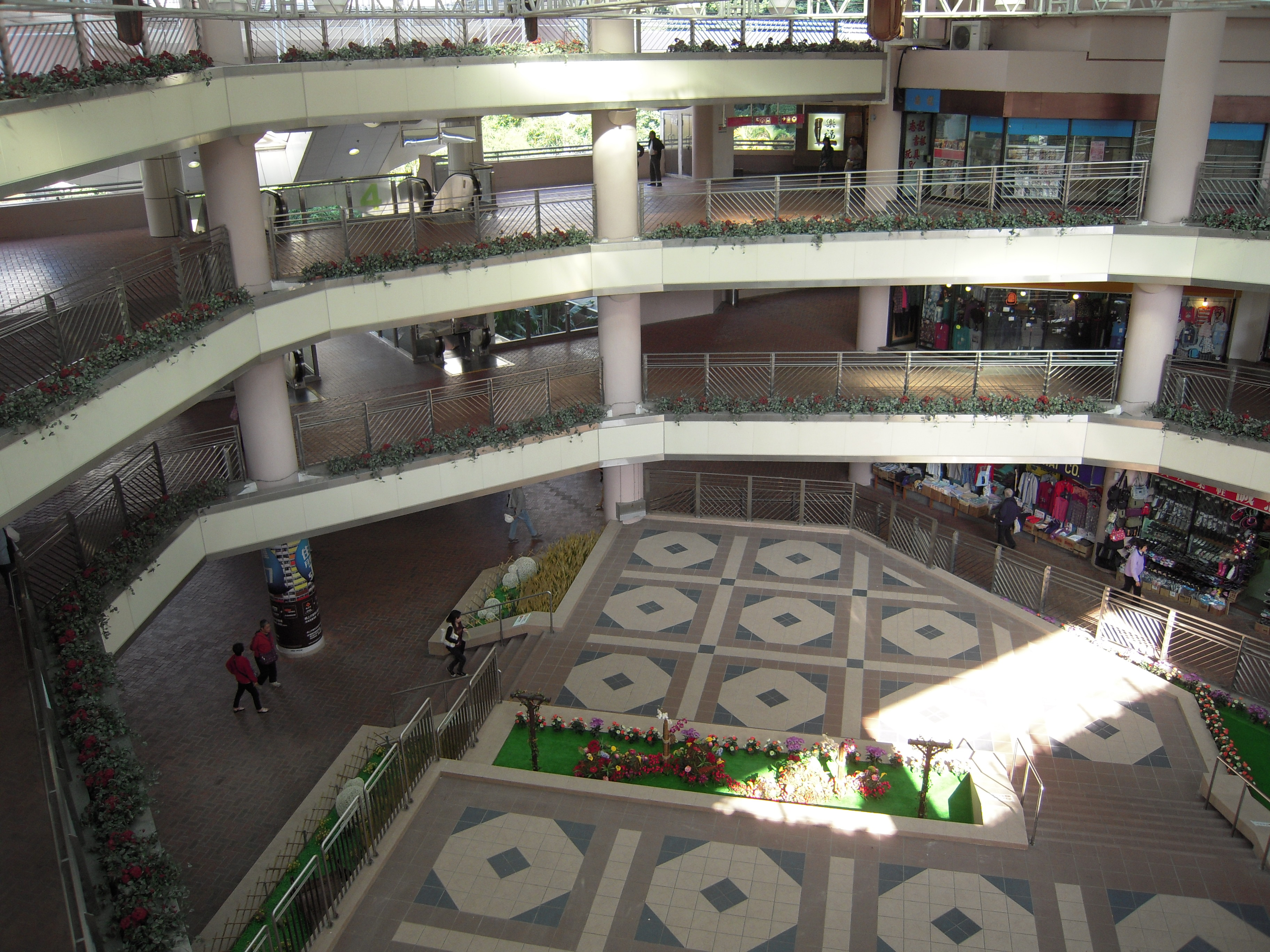 Heng On Shopping Centre Interior